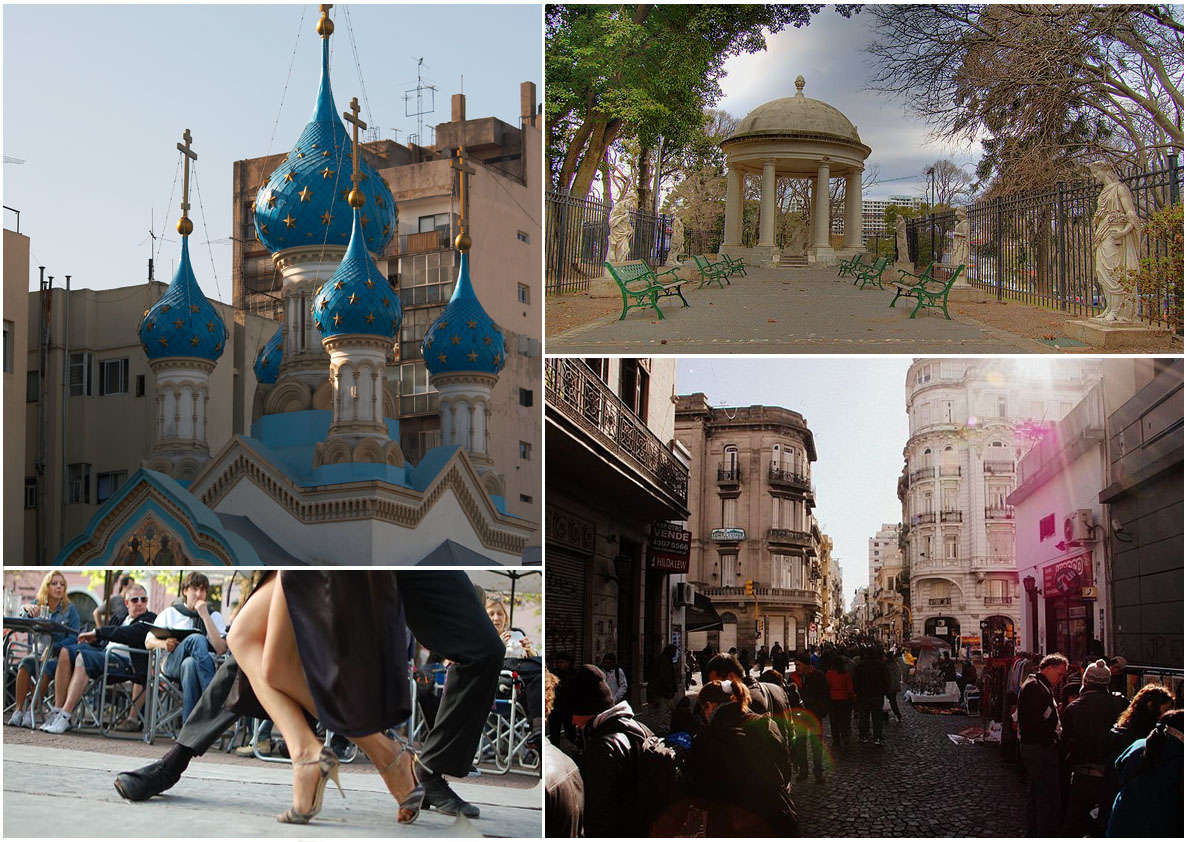 Photo montage of the Buenos Aires district of San Telmo